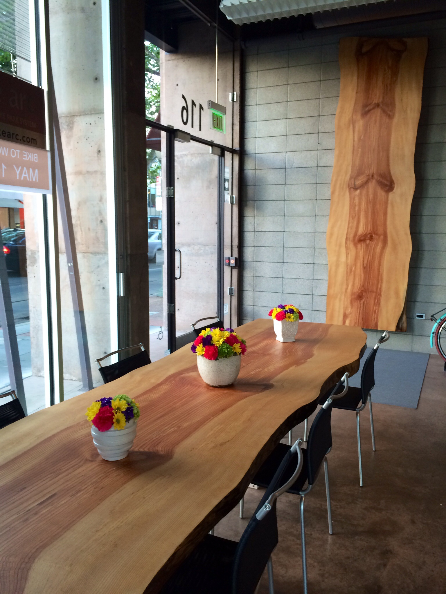 Joseph Bellomo Architects 116 University Ave. Palo Alto, CA